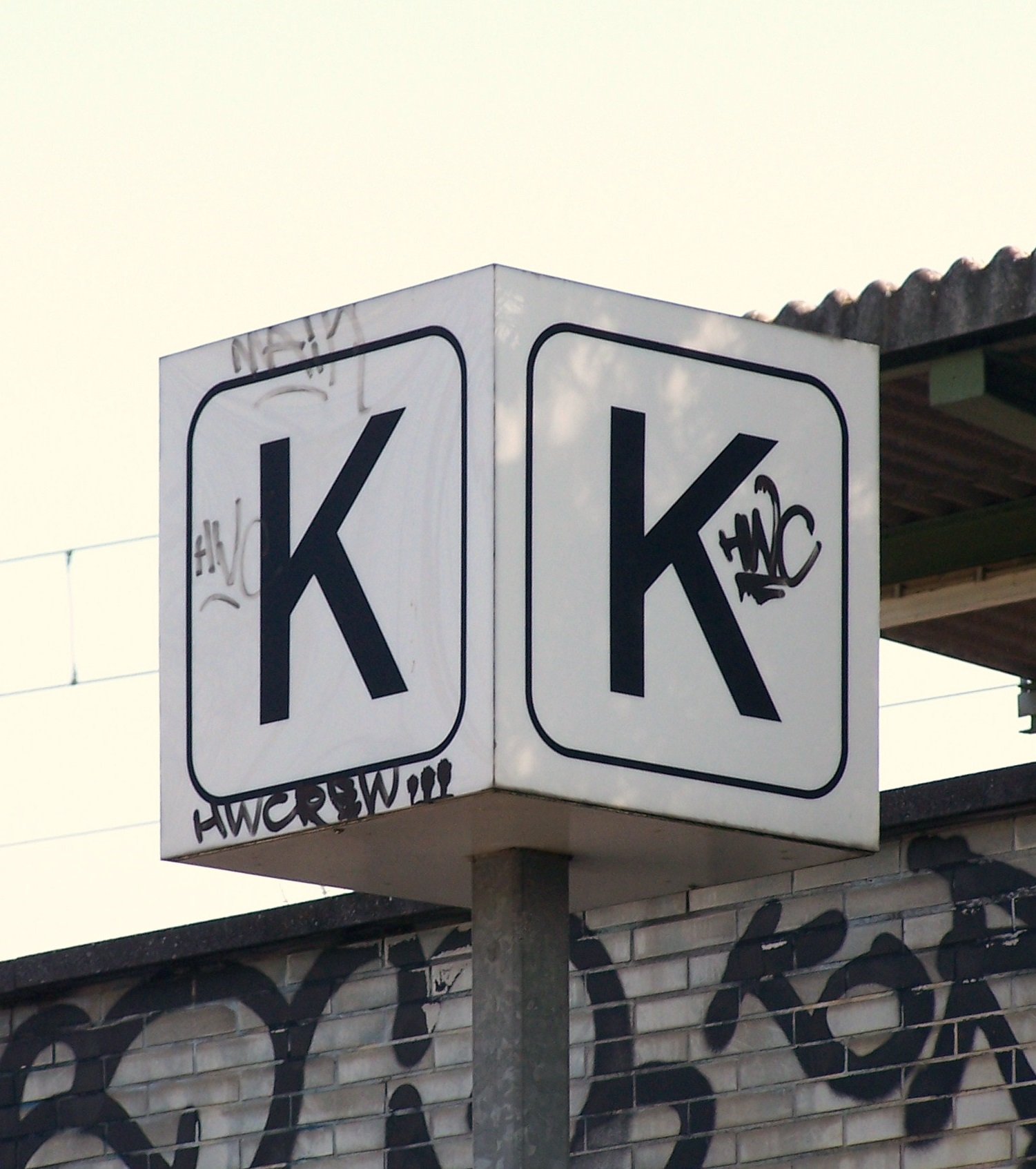 "K-Bahn" sign at the Frankfurt-Höchst station